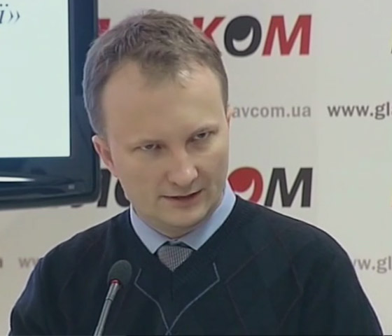 Oleksandr Paliy, Ukrainian political scientist